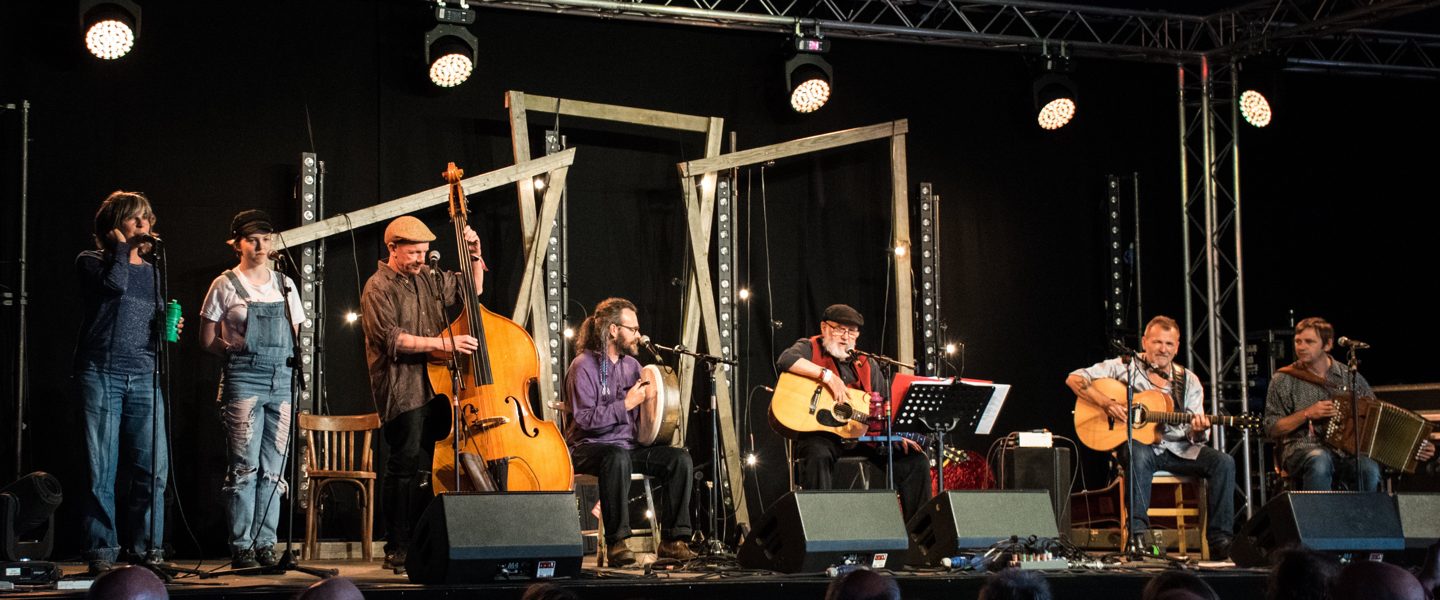 Roy Bailey and band performing at Towersey Festival 2018. Kit Simpson, Max Simpson, Stephen Taberner, Marc Block, Roy Bailey, Martin Simpson, Andy Cutting